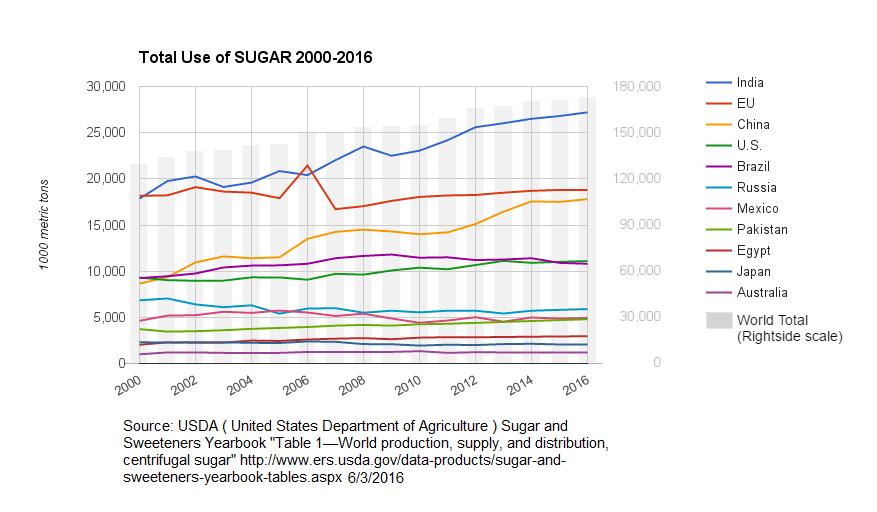 Sugar consumption of principal countries 2000-2016